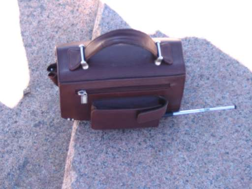 murse